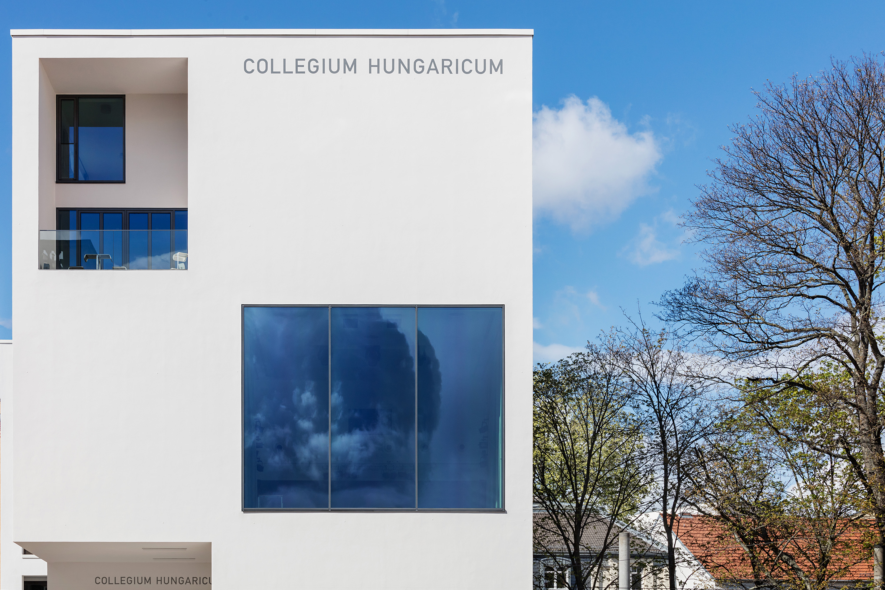 The other pictures from Collegium Hungaricum Berlin are old and they present and old situation. This picture is new and shows the reality.